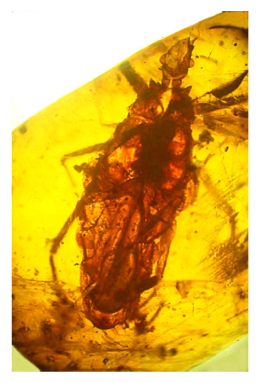 A Kissing bug, Triatoma dominicana, in Dominican amber with an actinobacteria infection and Trypanosoma antiquus metatrypanosomes in its fecal droplets